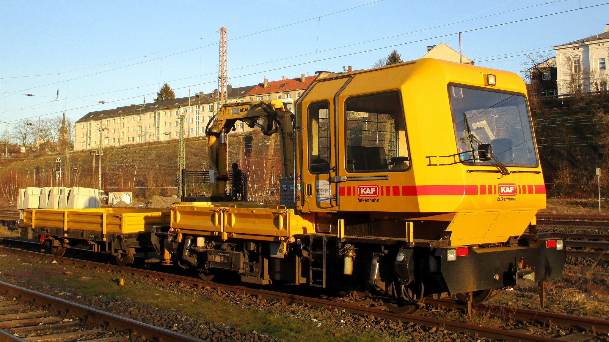 Track maintenance car SKL 26 LK (99 80 9685 009-9 D-KAF ex Skl 29.2.020) of KAF Falkenhahn with trailer (99 80 9783 060-3 D-KAF ex Kla 03.0584) at Wuppertal-Steinbeck station